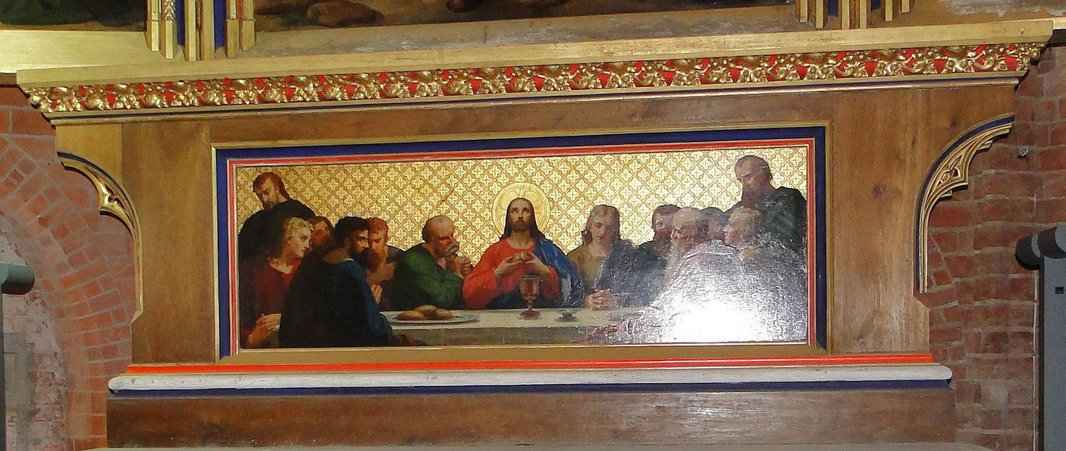 Interiors of church in Monastery in Dobbertin, district Parchim, Mecklenburg-Vorpommern, Germany